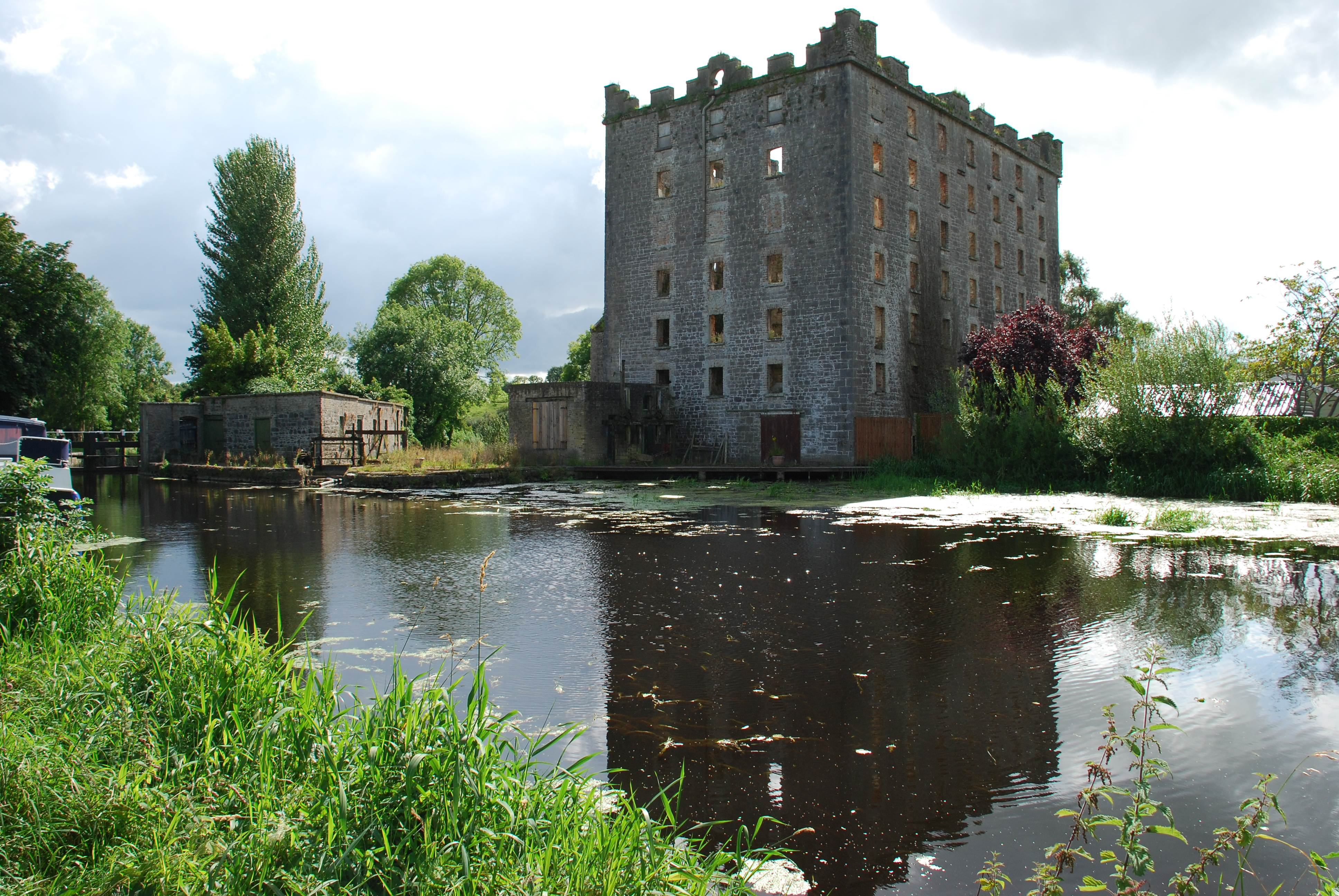 Levitstown Mill Ruin Athy Co Kildare